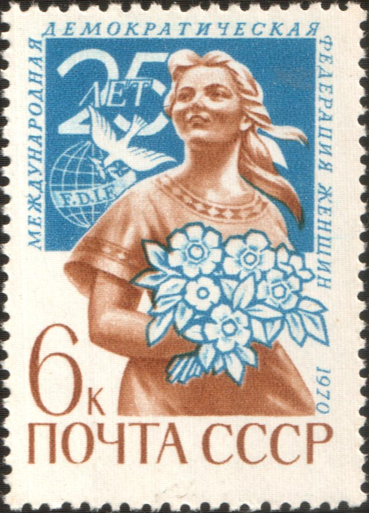 USSR stamp: Woman with Bouquet. Federation Emblem and Jubilee Date. Series: 25th Anniversary of Women's International Democratic Federation (founded 1945.12.01)